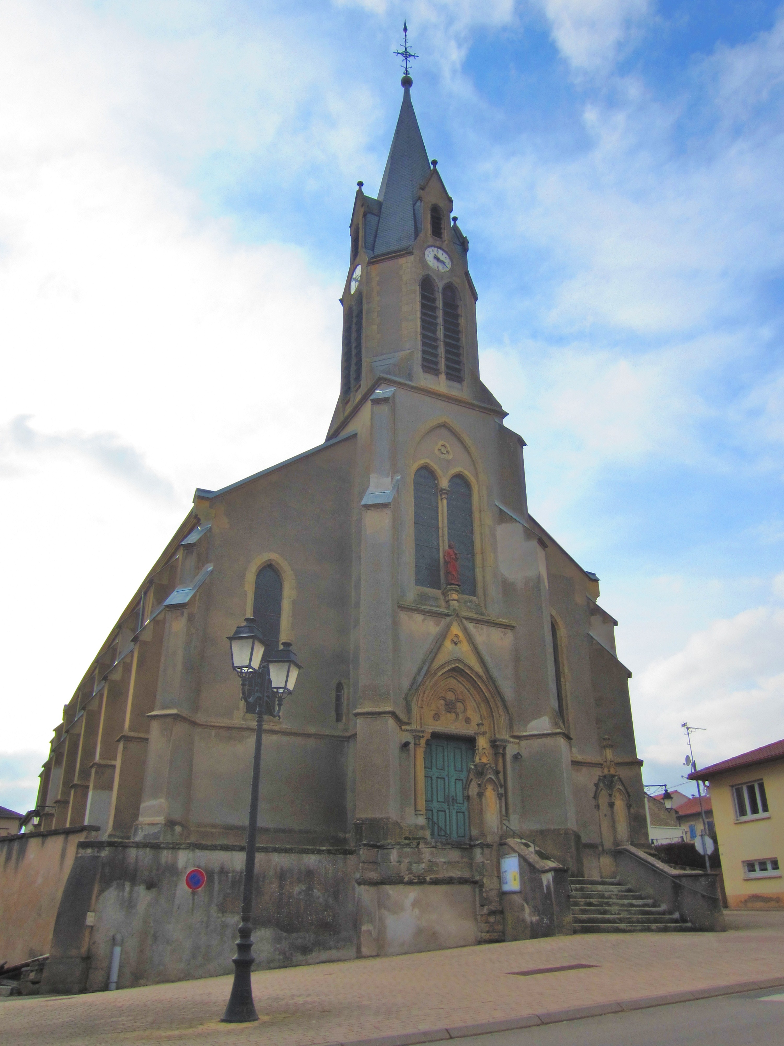 Ebersviller church